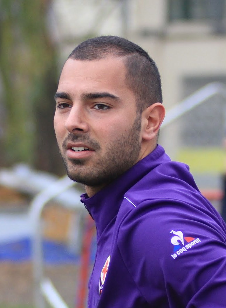 Luigi Sepe in training with Fiorentina in 2015